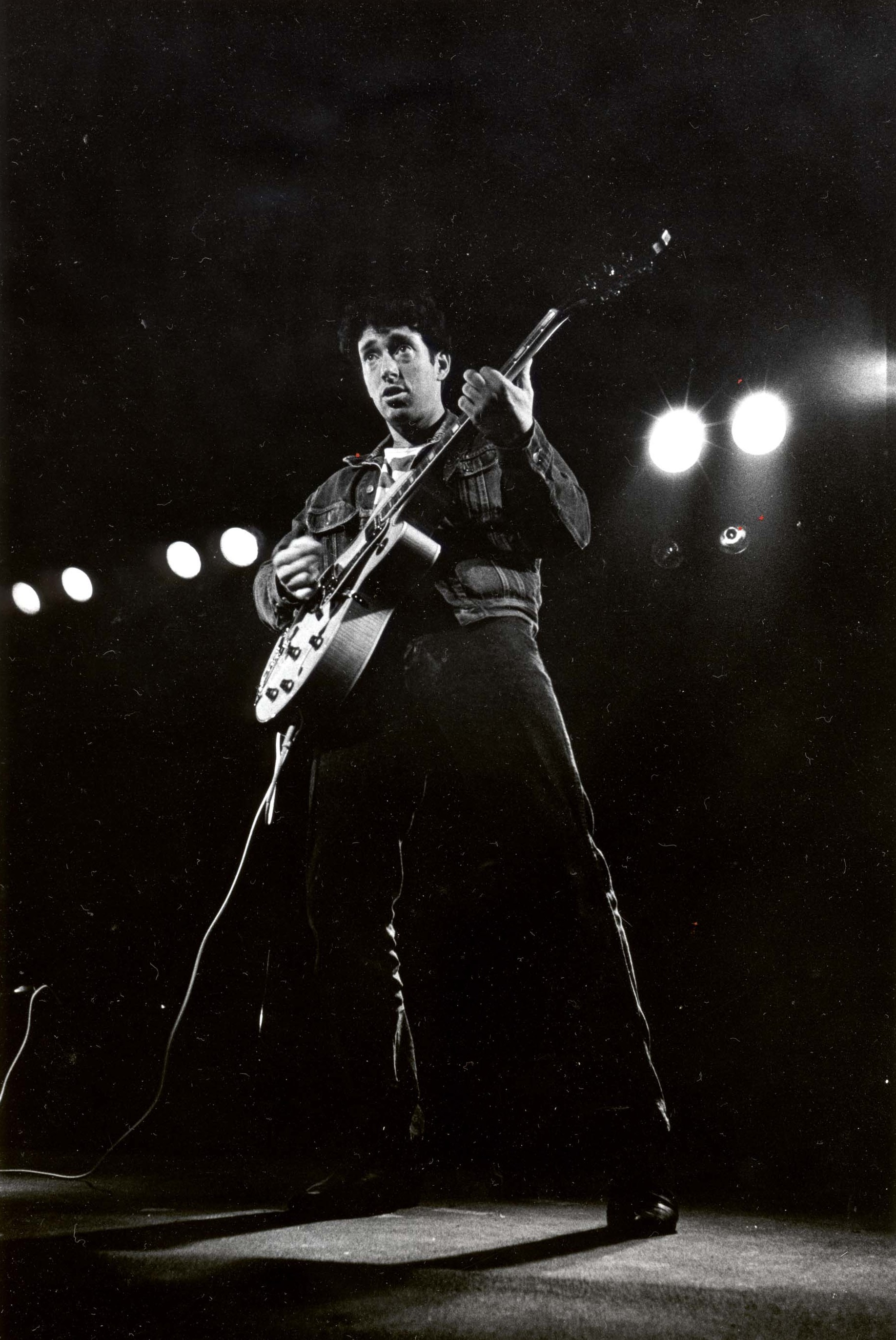 Jonathan Richman Live in Tokyo